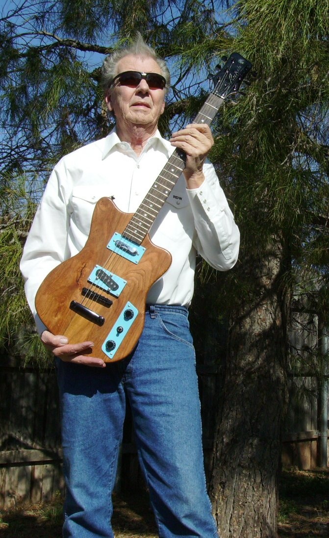 This is a photo of Sonny West in Abilene Texas. He is shown holding an electric guitar he made from the Texas Mesquite, a local hardwood.